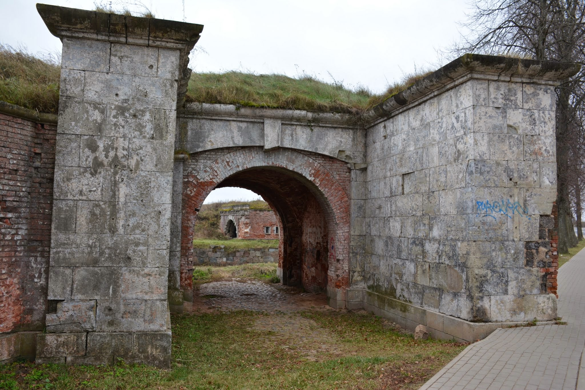 Развалины крепости